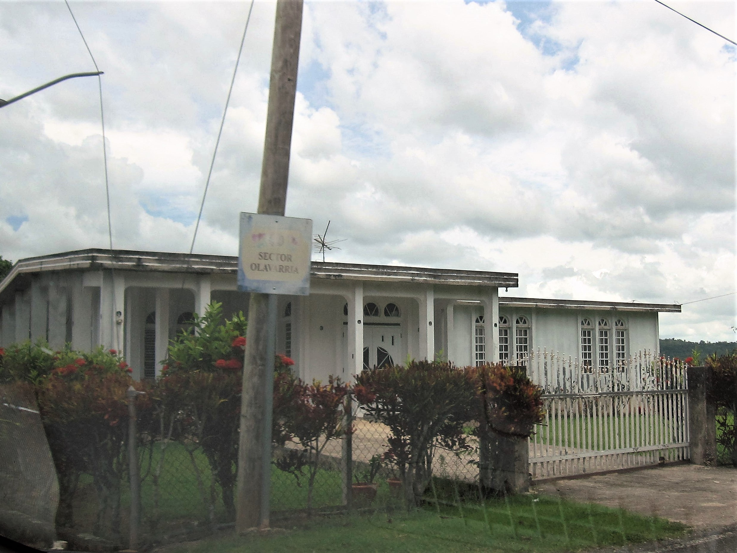 Sector Olavarría in Perchas 2, San Sebastián, Puerto Rico